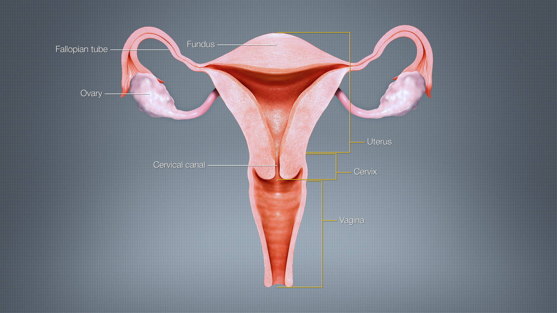 A 3D medical illustration showing uterus and its different regions i.e. fundus, corpus, cervix & cervical canal